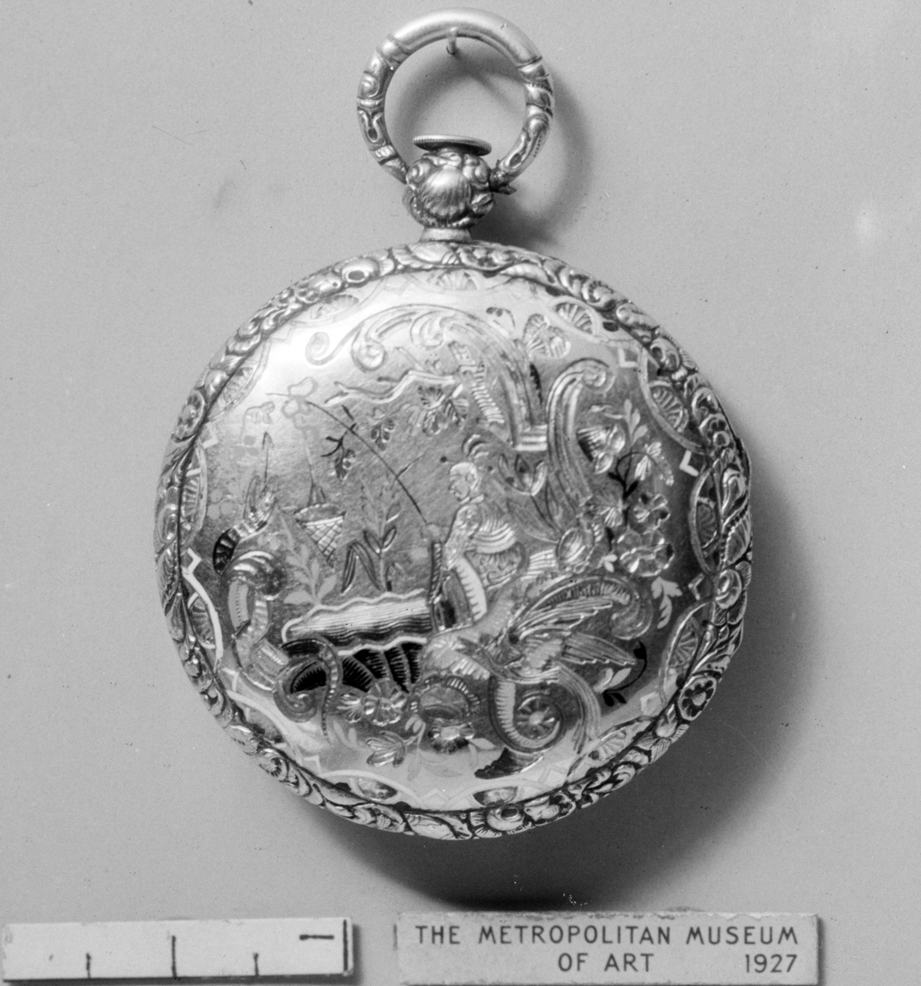 Swiss, Geneva; Watch; Horology